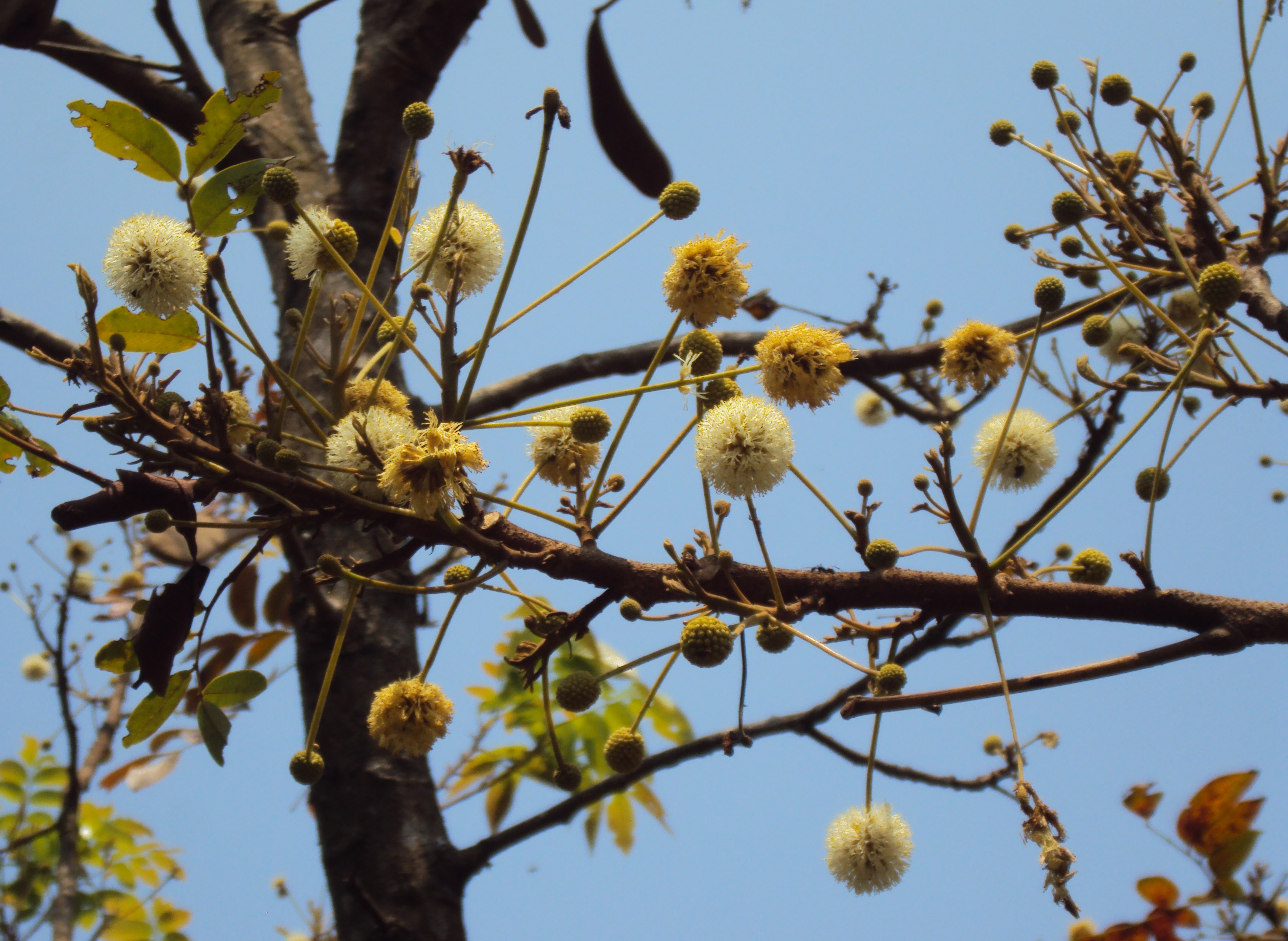 Xylia xylocarpa